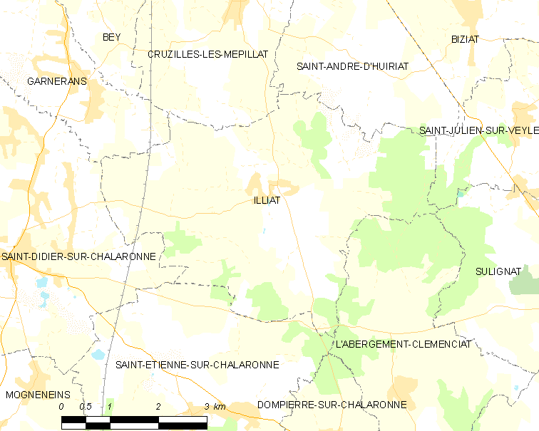 Map of French commune: Illiat Map commune FR insee code 01188.png